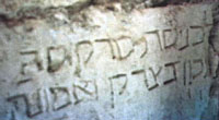 A Jewish inscription found during restoration works in the former Synagogue of Syracuse.